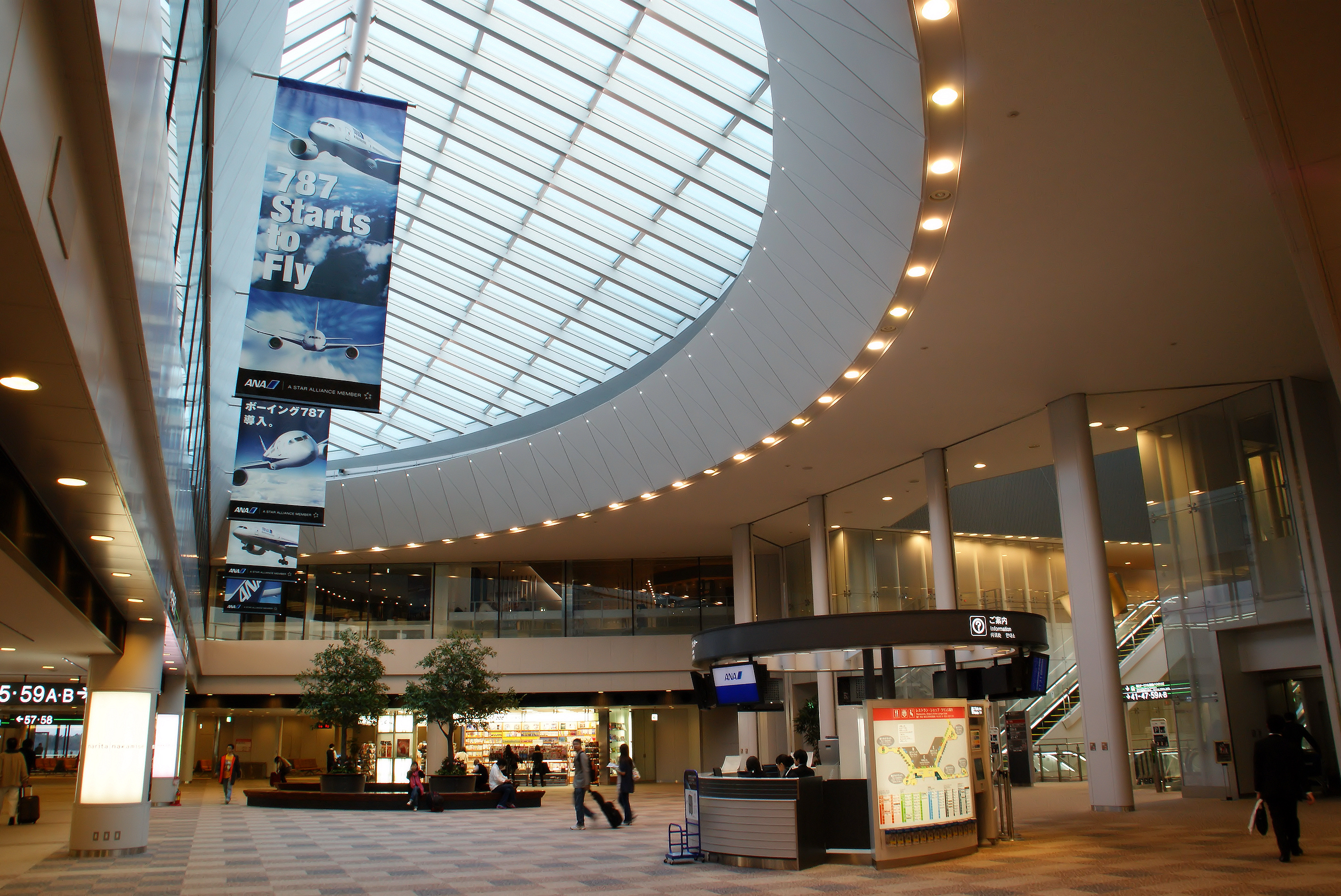 Departure Lounge of Satellite 5, Terminal 1, Narita International Airport.(Narita City, Chiba Prefecture, Japan)